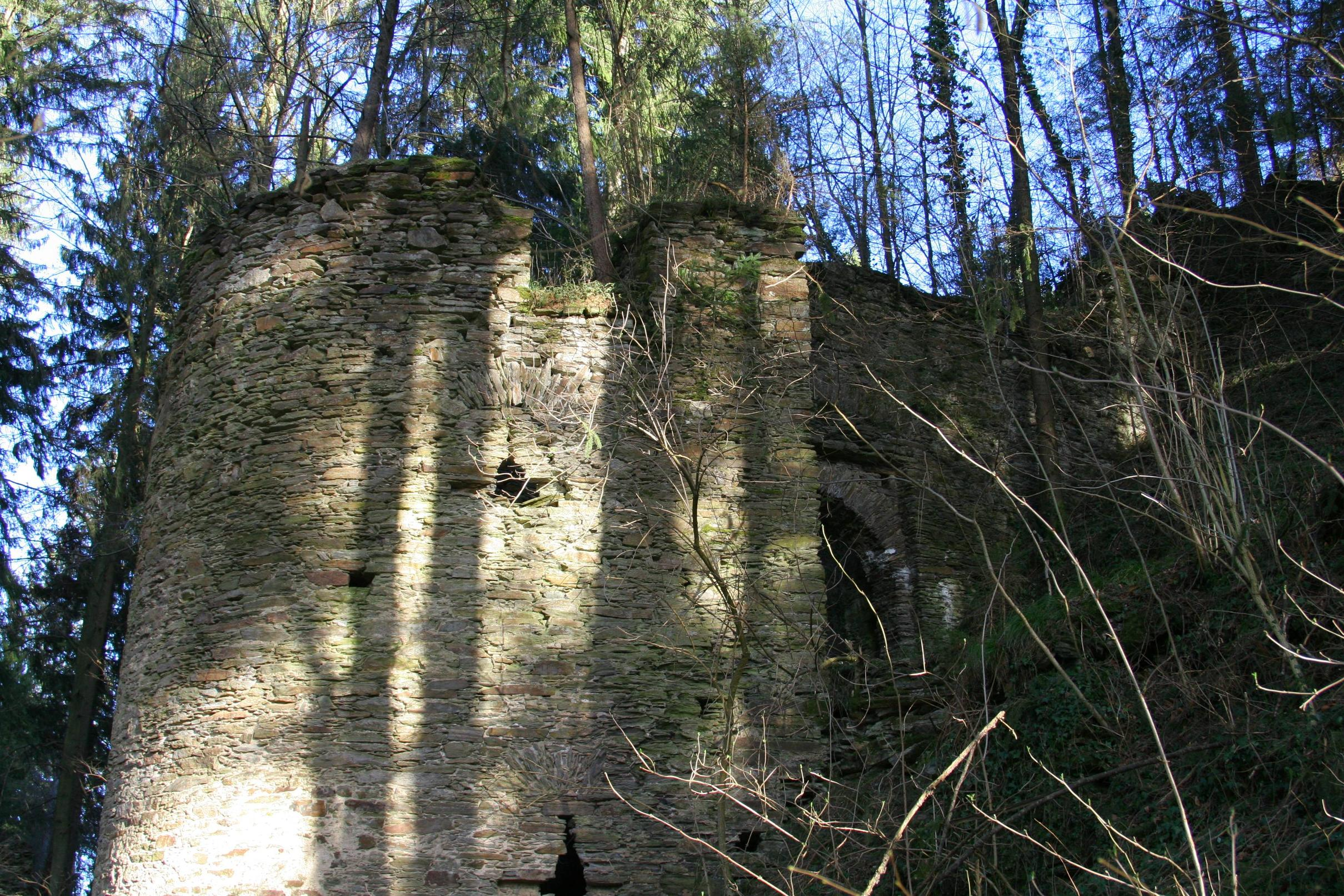 Gate of castle Neu-Leonroth